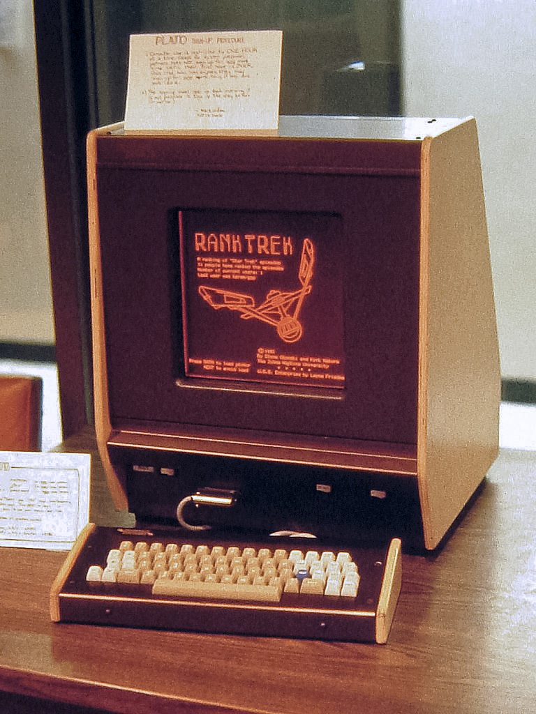 PLATO V Terminal with plasma display 1981 (Programmed Logic for Automated Teaching Operations), PLATO I was ~1960 the first generalized computer assisted instruction system